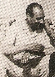 Abdel Halim Hafez (right) with Kamal at Taweel meeting for the first time.